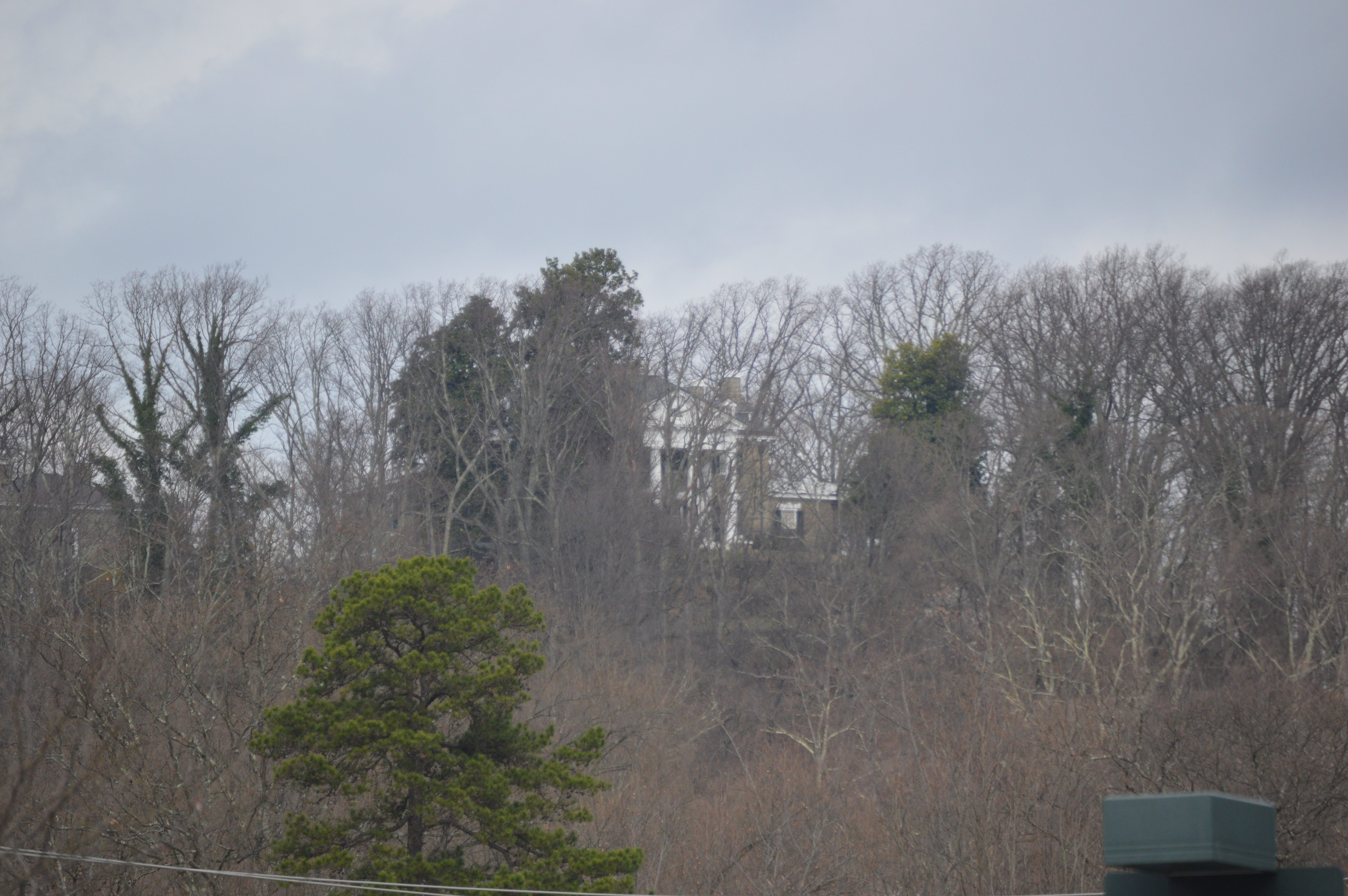 Distant view, looking west from the University of Virginia campus, of the Lewis Mountain estate, located west of Charlottesville in Albemarle County, Virginia, United States. Built in 1912, it is listed on the National Register of Historic Places.